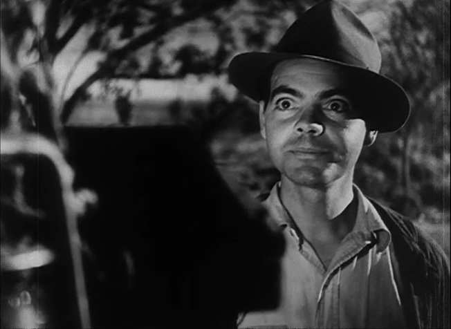 Trailer for the 1940 black and white film The Grapes of Wrath. Eddie Quillan as Connie Rivers.